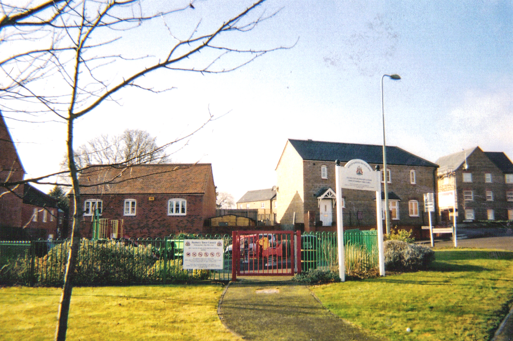 The Winter Gardens Way Children's Play Park, Banbury, UK, during December 2010. February 2011. I will be uploading a better one next month. As yet, this is the only shot I have of it. Iv'e uploaded it.Wipsenade (talk) 18:13, 11 February 2011 (UTC)